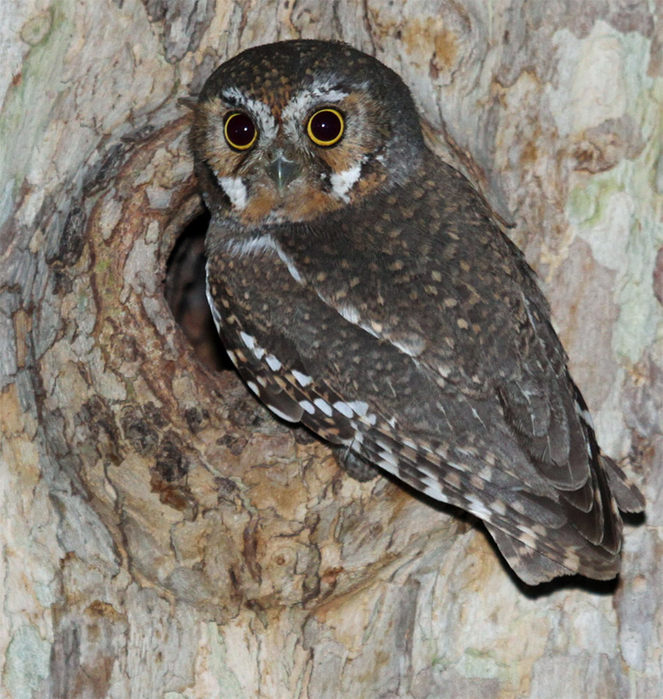 Elf Owl (Micrathene whitneyi) at nest hole. Madera Canyon Arizona 29APR12